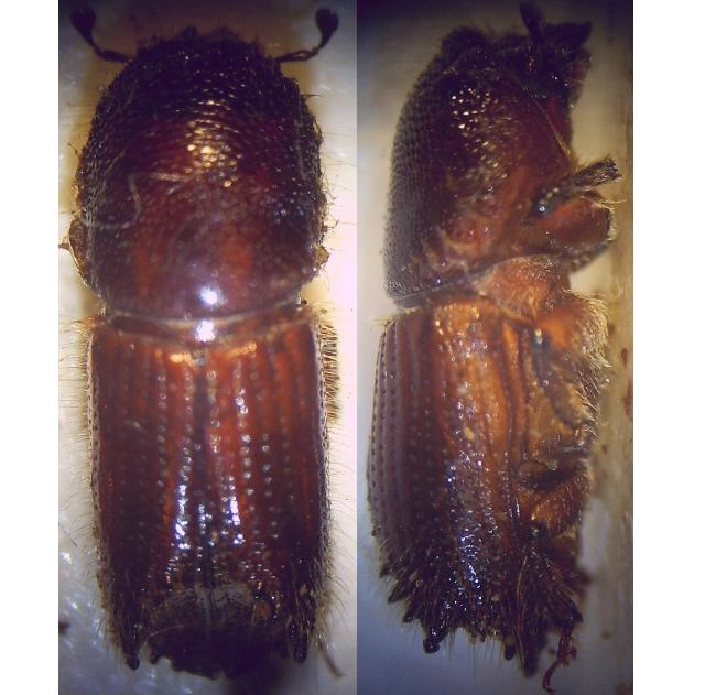 Ips_sexdentatus_Imago.